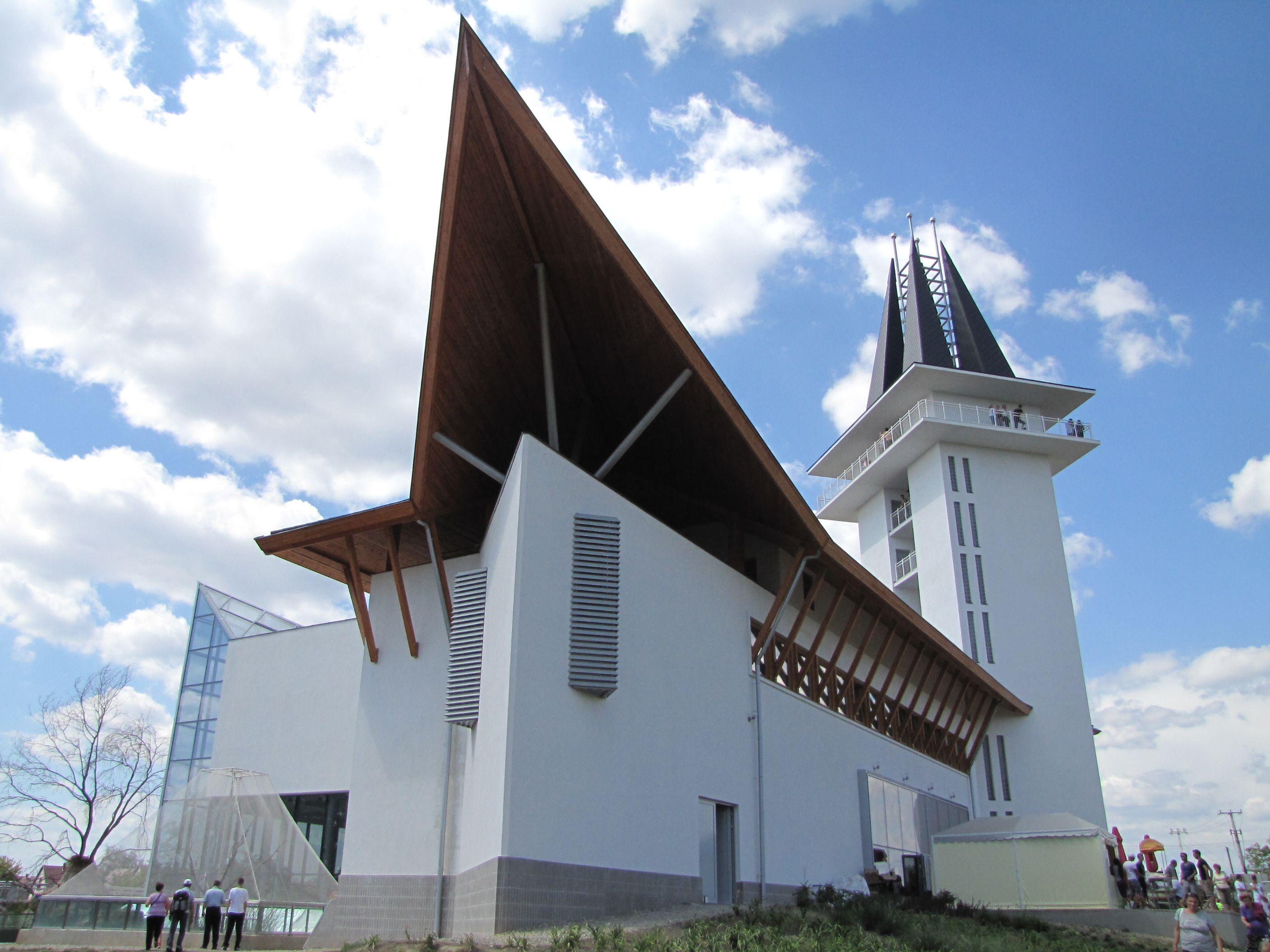 Lake Tisza Ecocenter, Poroszló, Hungary